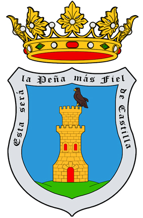 Escudo de Peñafiel (Valladolid, España)